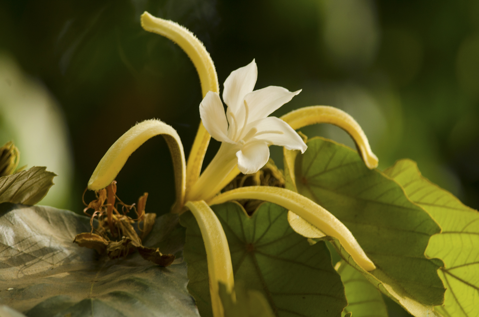 Pterospermum acerifolium